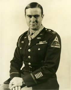 Capt. James M. Burt